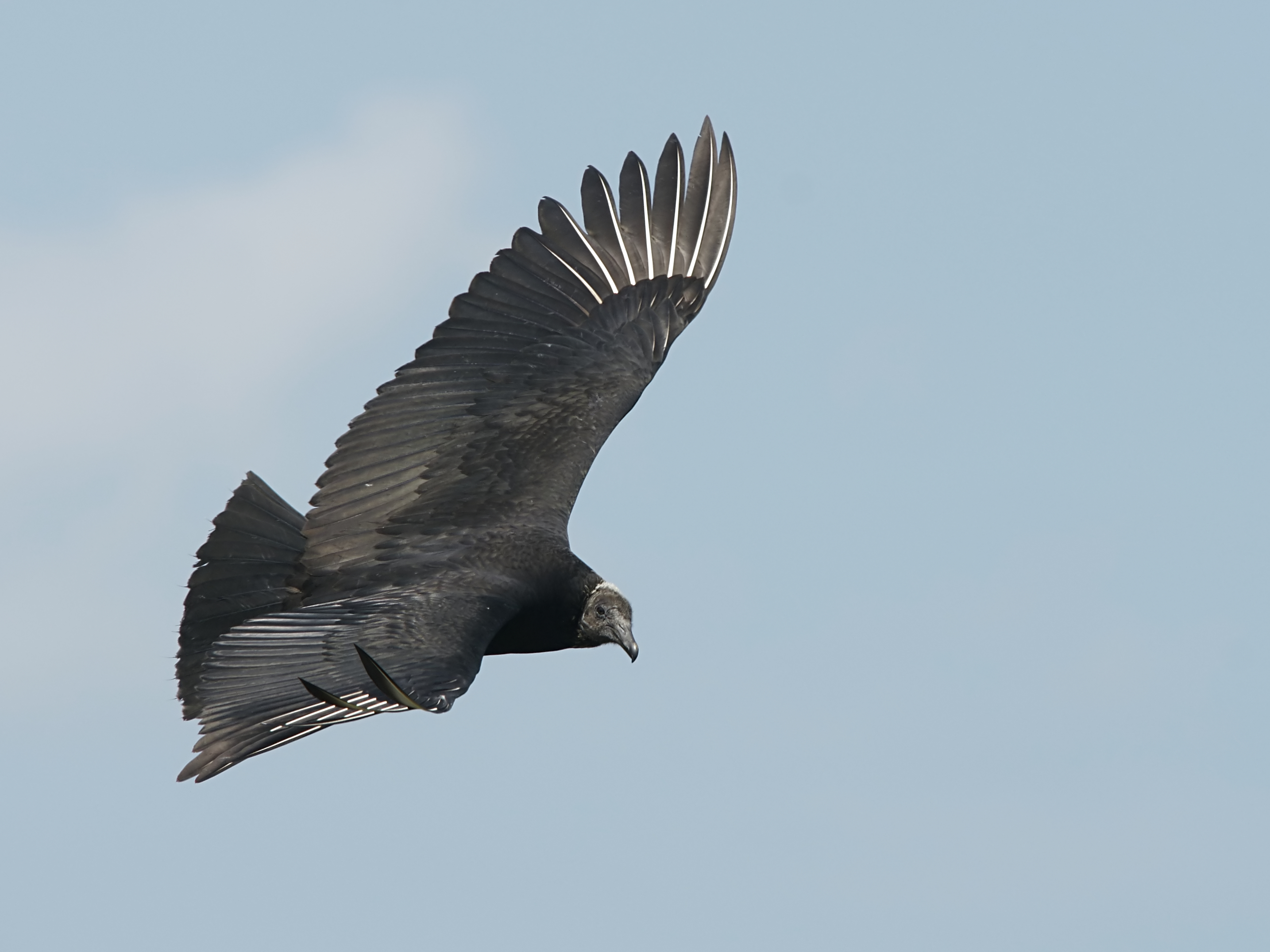 American Black Vulture at Royal Palm in the Everglades National Park in Miami-Dade County, Florida, U.S.A.